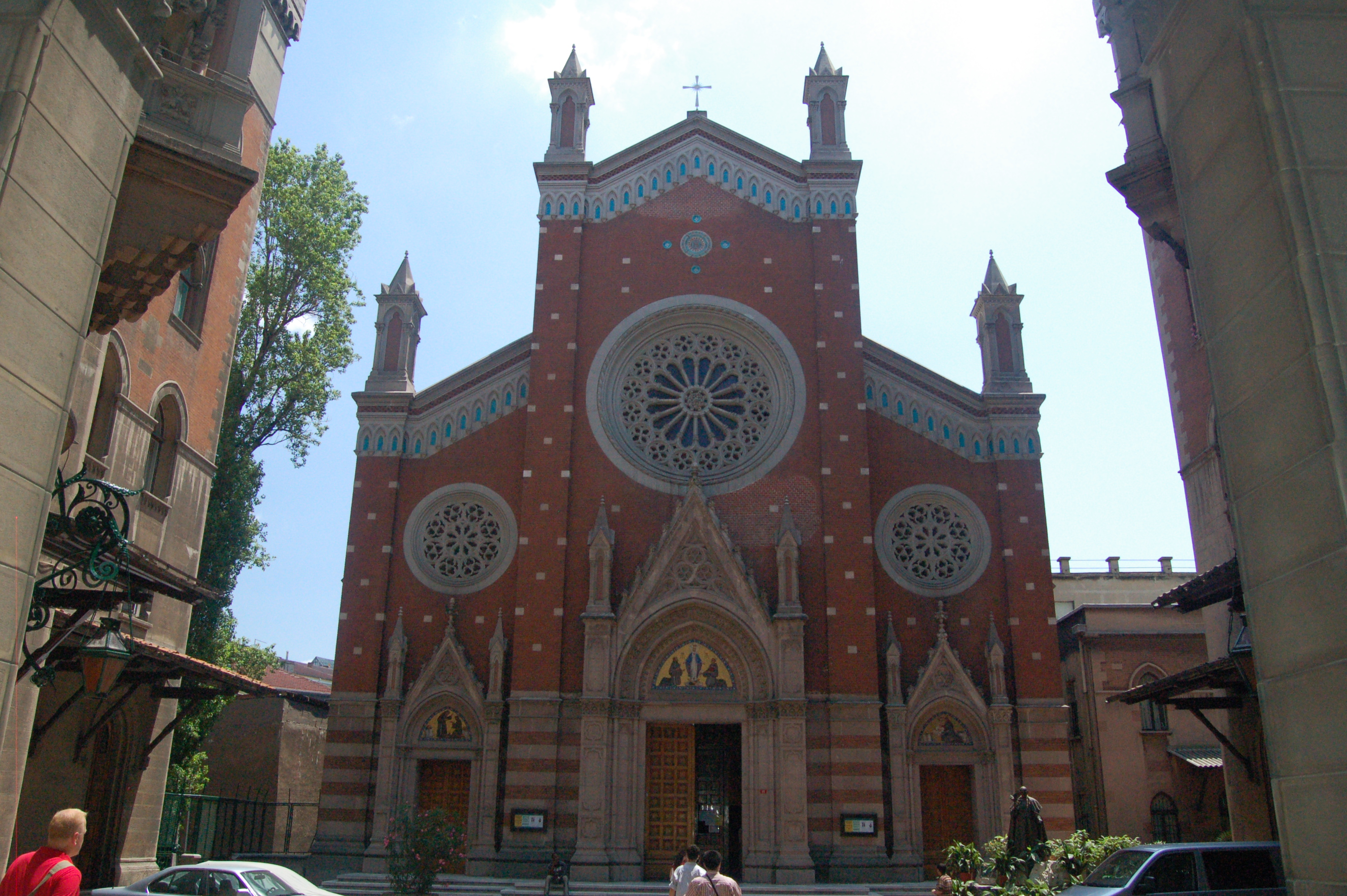 S. Antonio di Padova Catholic Church on Istiklal Cadessi, Istanbul, Turkey.